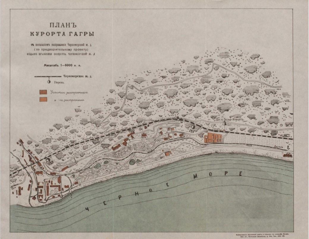 Plan of Gagra resort from the illustrated album The Black Sea Railway (Tuapse-Kvaloni) under construction. - St. Petersburg: Pravl. Chernomor Island. F. Etc., 1913. - 116 p., 14 liters. Maps. 24 - p.41